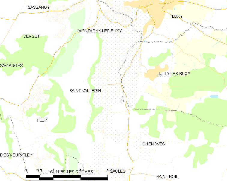 Map of French municipality